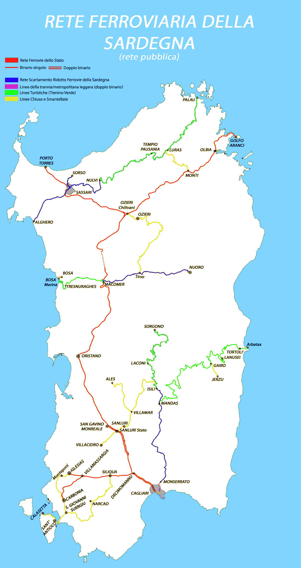 Map of all railways in Sardinia, normal gauge in red, narrow gauge: working lines blue, light metro llilac, seasonal touristic traffic green, closed down/dismantled dirty yellow.